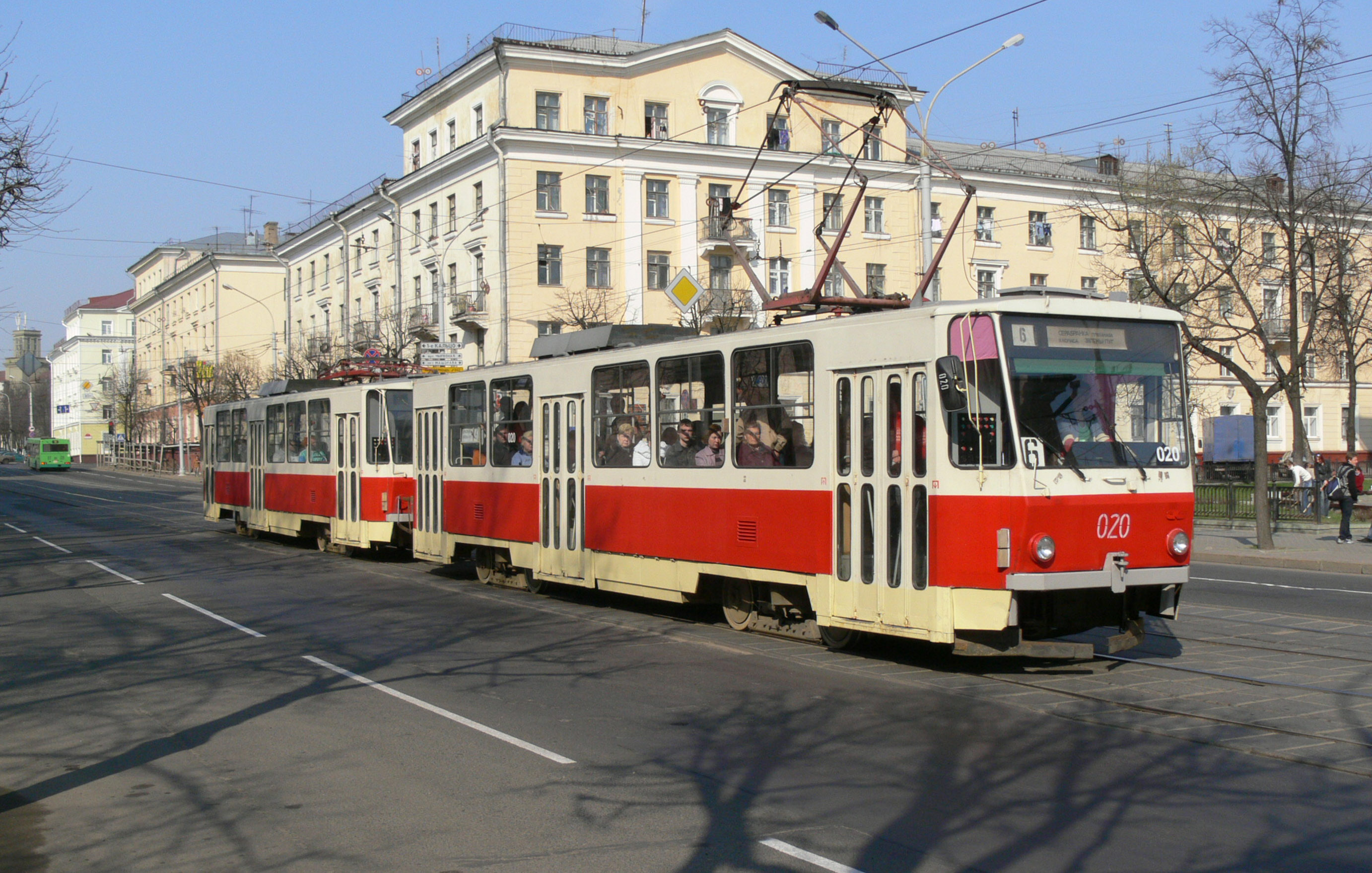 Tatra T6B5SU tram in Minsk, Belarus.